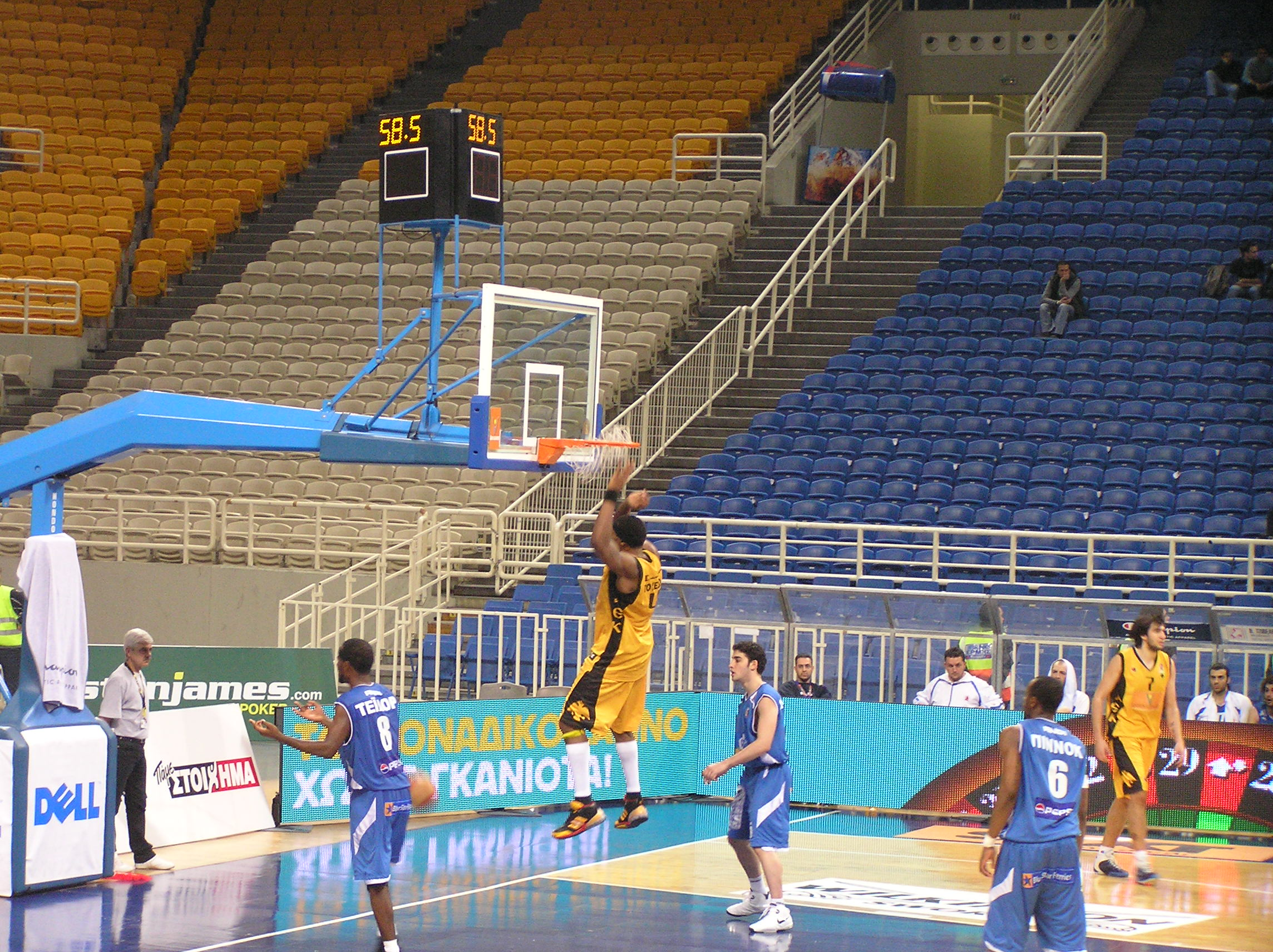 K'zell Wesson (A.E.K.) dunks vs Kolossos Rhodes